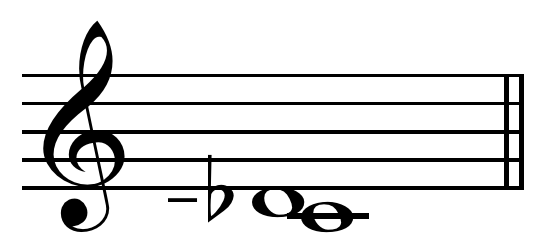 Just diatonic semitone on C = D♭- (Ben Johnston's notation). Just: 16:15 = 111.73 cents. Limit: 5-limit. Created by Hyacinth (talk) in Sibelius 5.